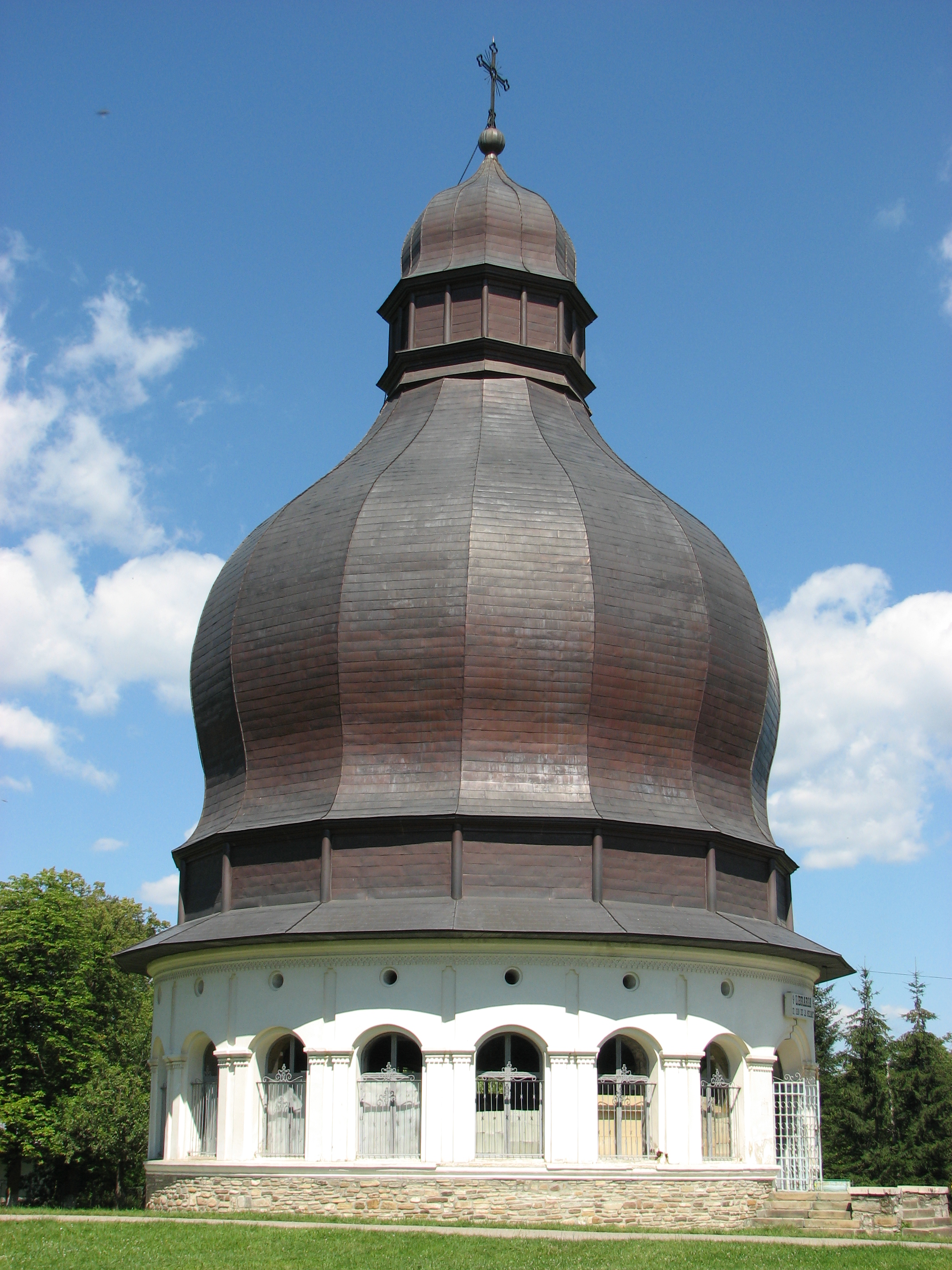 The so called Agheazmatar Building from Neamt Monastery, Romania. The building was built between 1836 and 1847. Nowadays it hosts the Library of St. Ioan Iacob of Neamt.